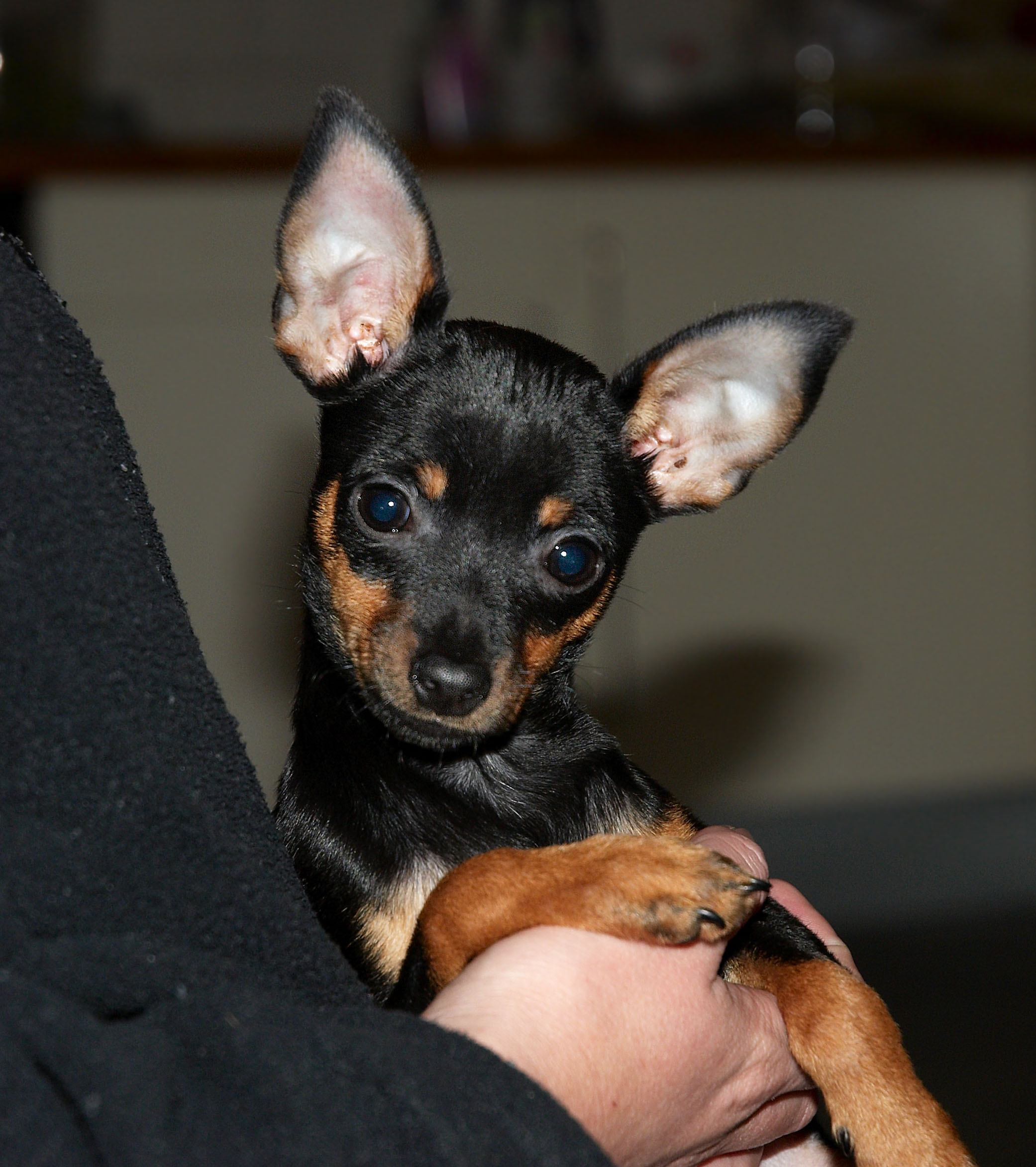 Puppy of Miniature Pinscher (3 months old)